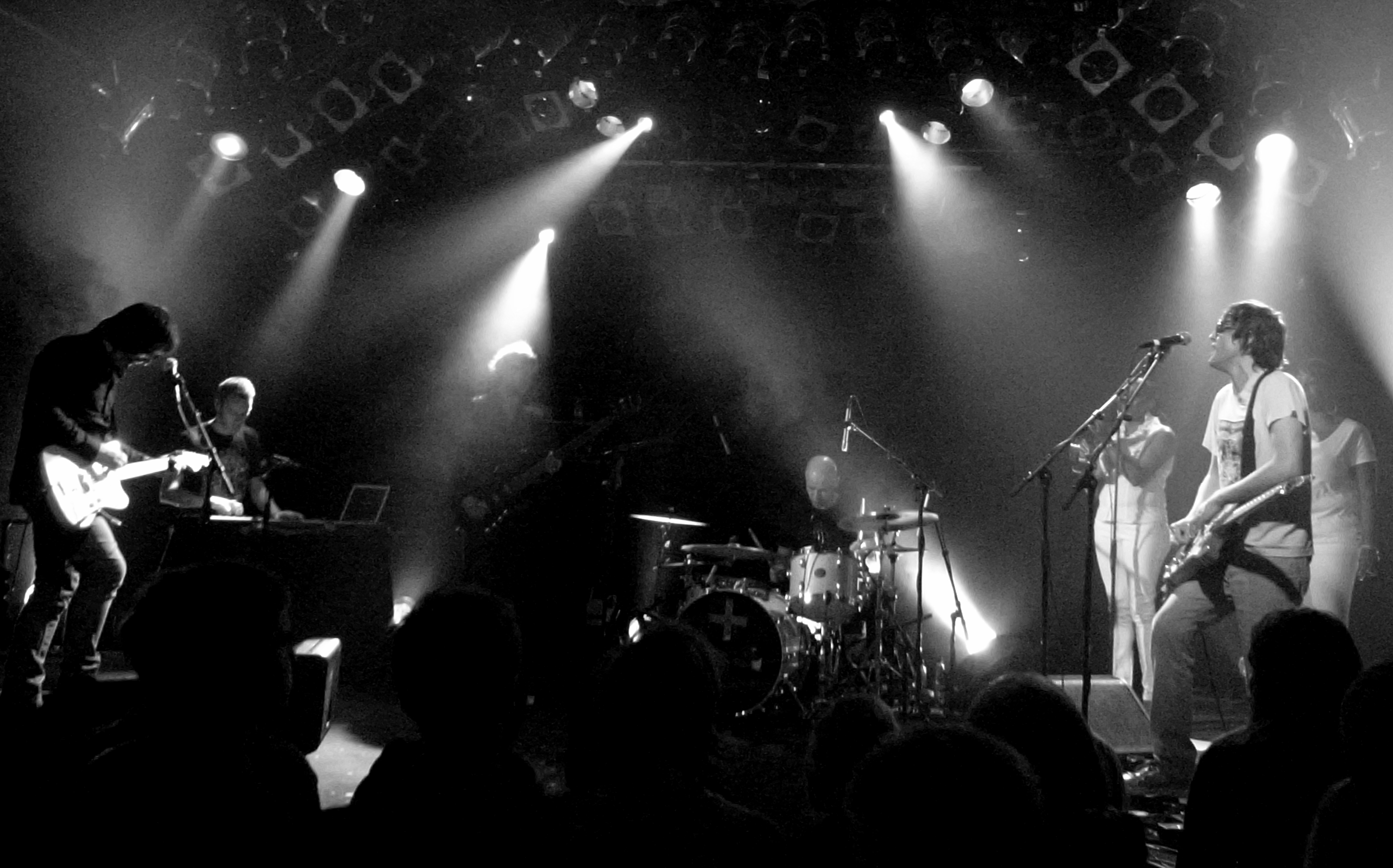 Spiritualized performing in Malmö, Sweden, November 4th, 2008.